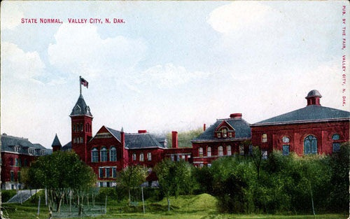 Photographic postcard of State Normal School at Valley City Historic District, Valley City This work is in the public domain because it was published in the United States between 1923 and 1977 and without a copyright notice. Unless its author has been dead for several years, it is copyrighted in jurisdictions that do not apply the rule of the shorter term for US works, such as Canada (50 p.m.a.), Mainland China (50 p.m.a., not Hong Kong or Macao), Germany (70 p.m.a.), Mexico (100 p.m.a.), Switzerland (70 p.m.a.), and other countries with individual treaties. See this page for further explanation.